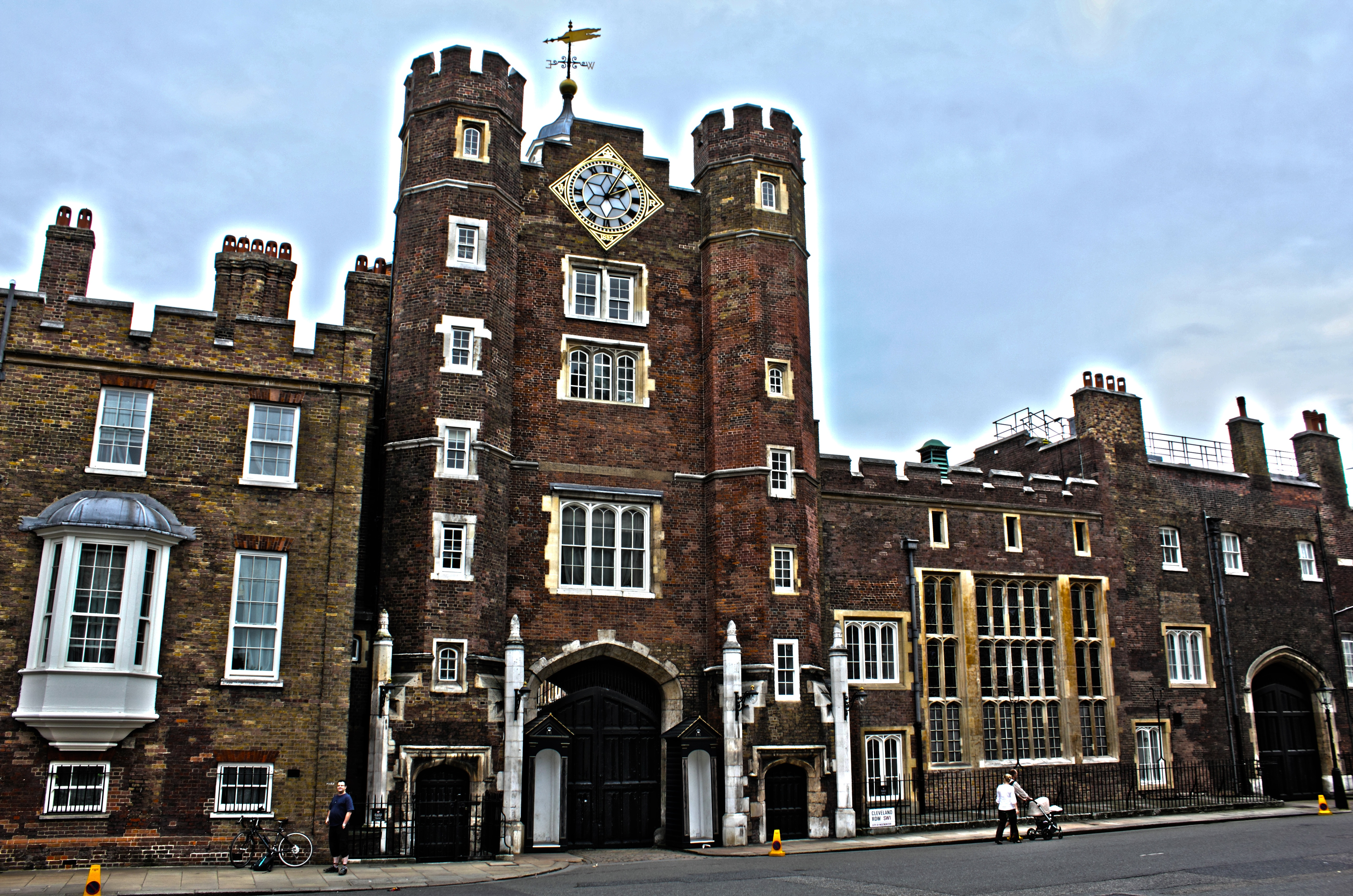 St James Palace